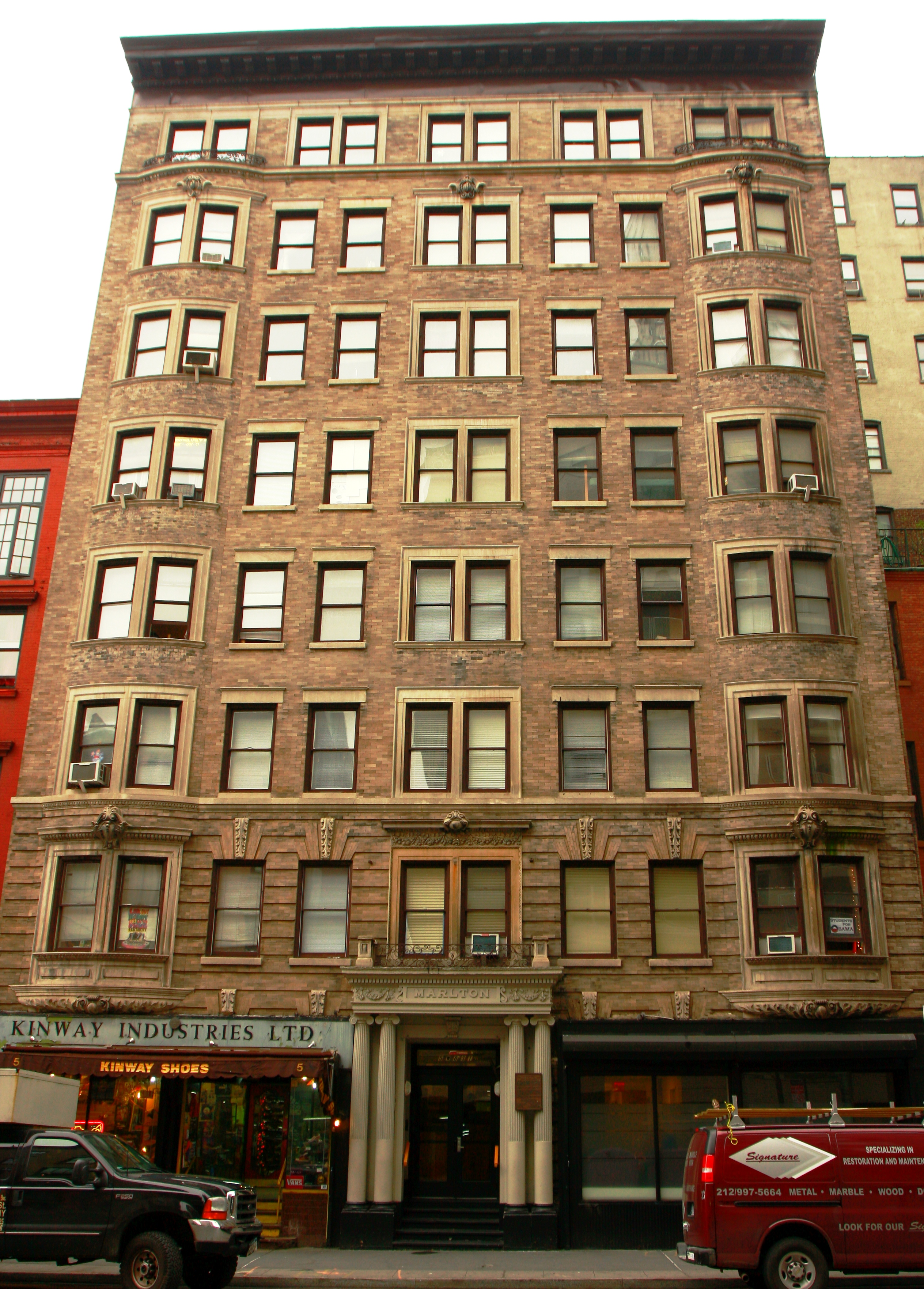 This photo is of Wikipedia Takes Manhattan location code 129, Marlton House.